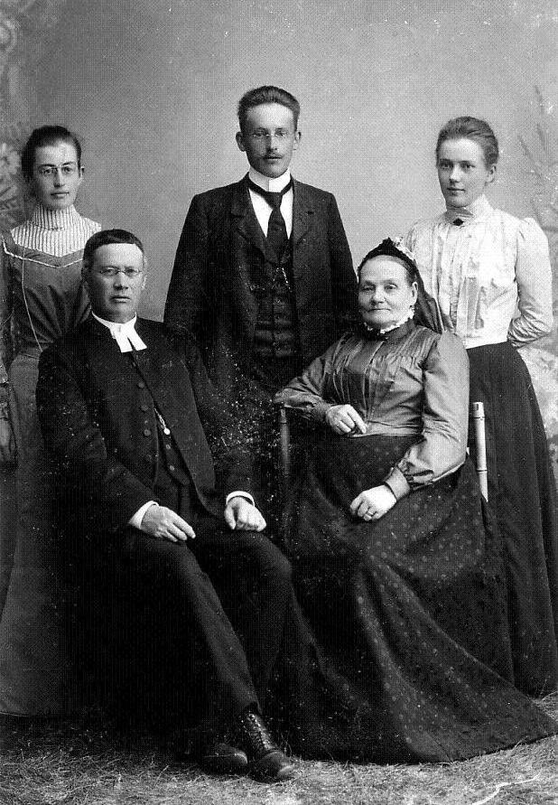 A. Gustaf Mattsson (1843-1906), wife Lotten Cedergren Mattsson & children (l-r) Ester Morbeck, Emanuel Morbeck & Anna Dahlbäck, as released by image owner FamSACPlace: Probably Mora, Sweden